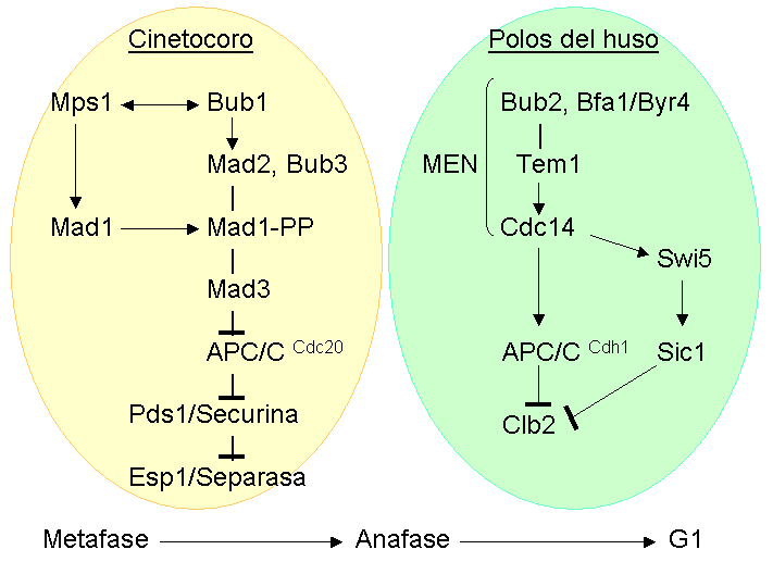 Diagram showing the proteins implicated in the mitotic checkpoint in yeast.